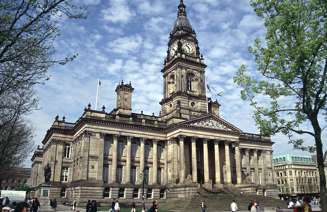 Bolton Town Hall, Bolton, Greater Manchester, England.